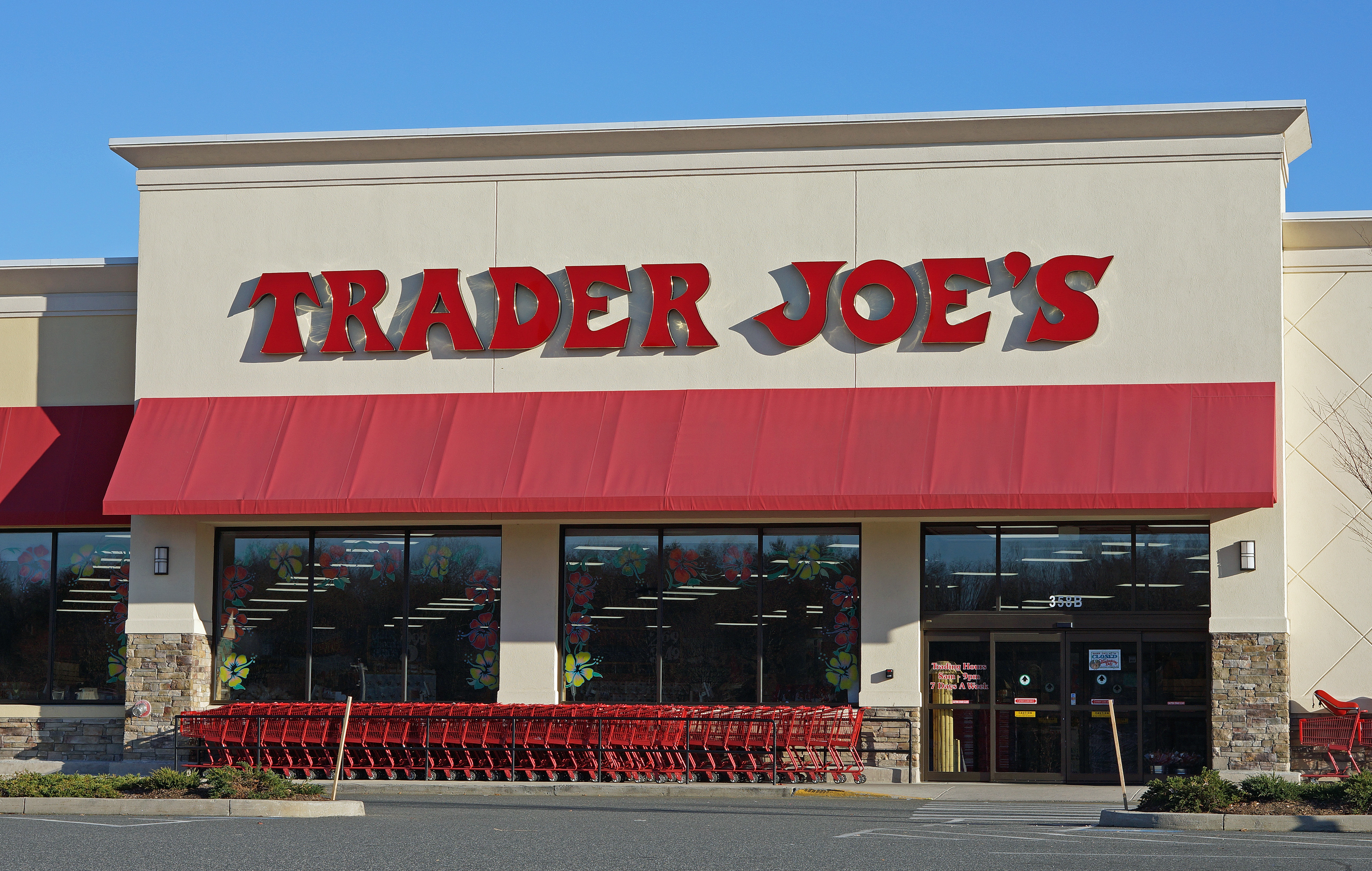 Trader Joe's in Saugus, Massachusetts USA